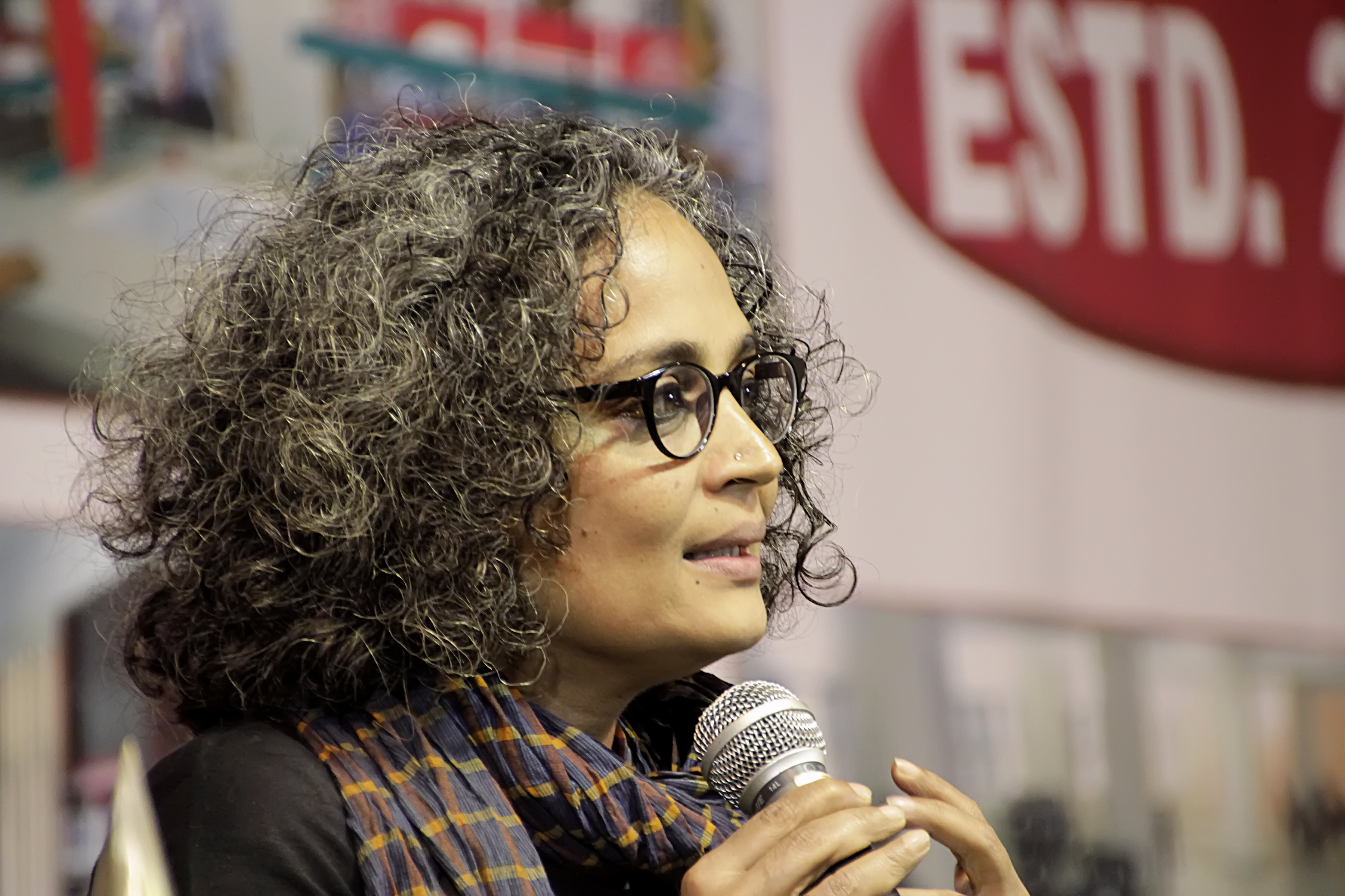 Arundhati Roy (born 24 November 1961) is an Indian author and political activist who was best known for the 1998 Man Booker Prize for Fiction winning novel The God of Small Things (1997) and for her involvement in environmental and human rights causes. Roy’s novel became the biggest-selling book by a nonexpatriate Indian author.